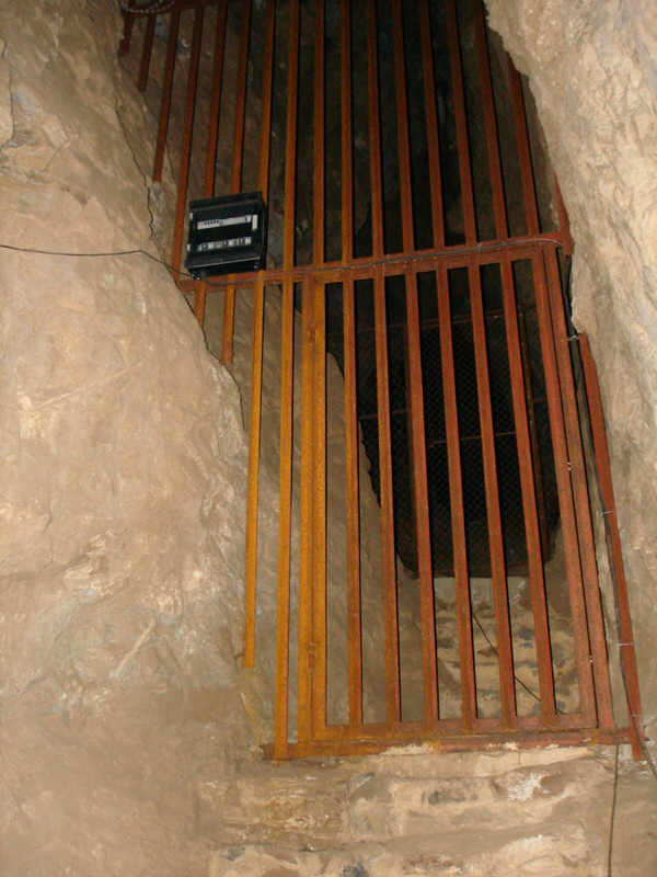 A view of the gate closing off public access to ongoing excavations in the Sterkfontein Caves, Gauteng, South Africa